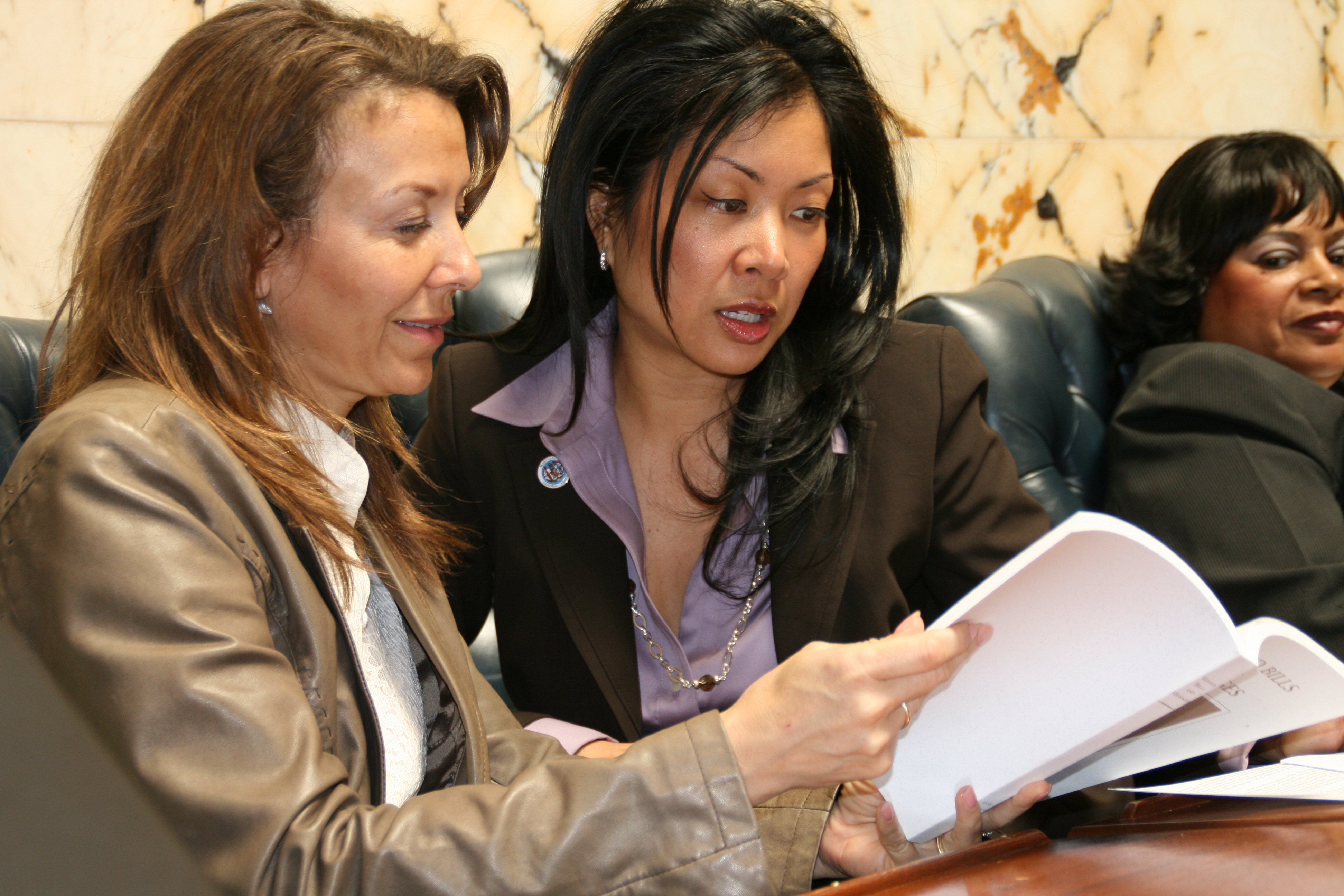 delegatesivey and valderama on house floor